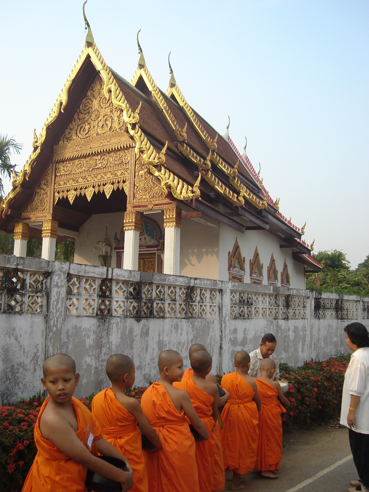 novice in the Buddhist religion group receives food from the Buddhist.Thailand, Uttaradit, 2007. Own work